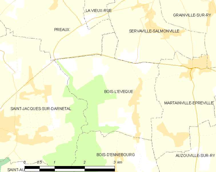 Map of French municipality Bois-l'Évêque